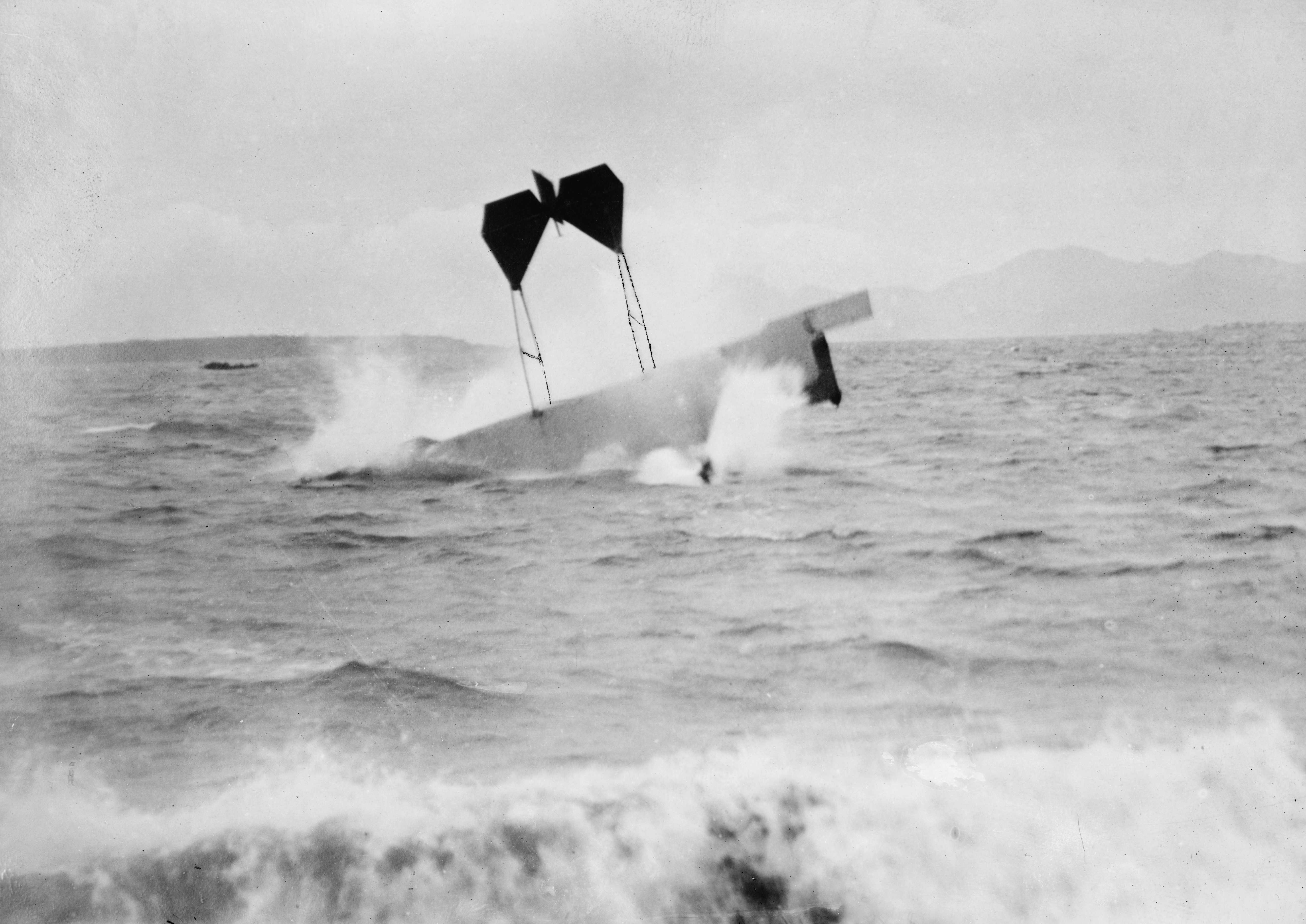 "Robinson (American) falling into sea near Nice"